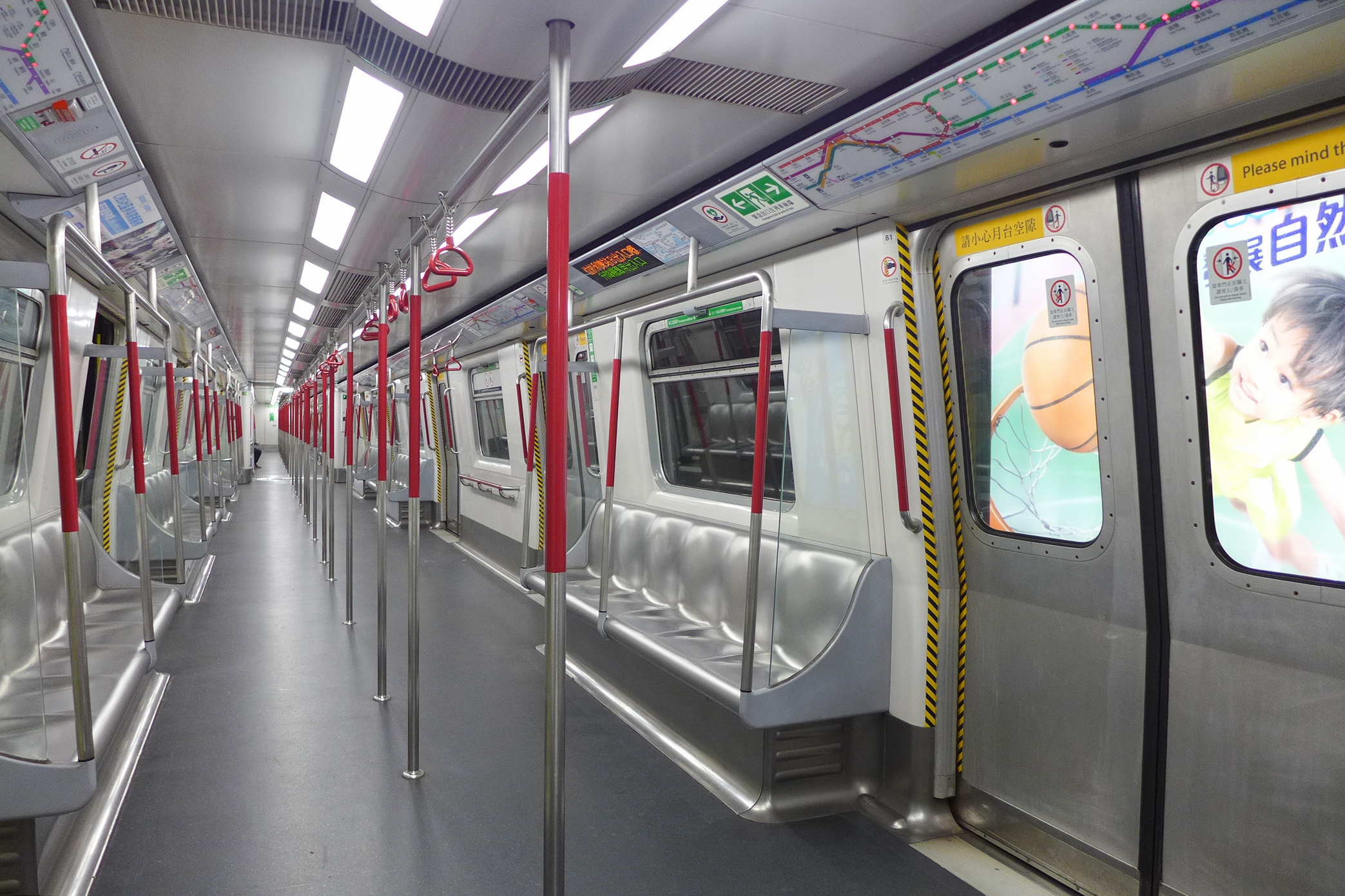 M Train interior